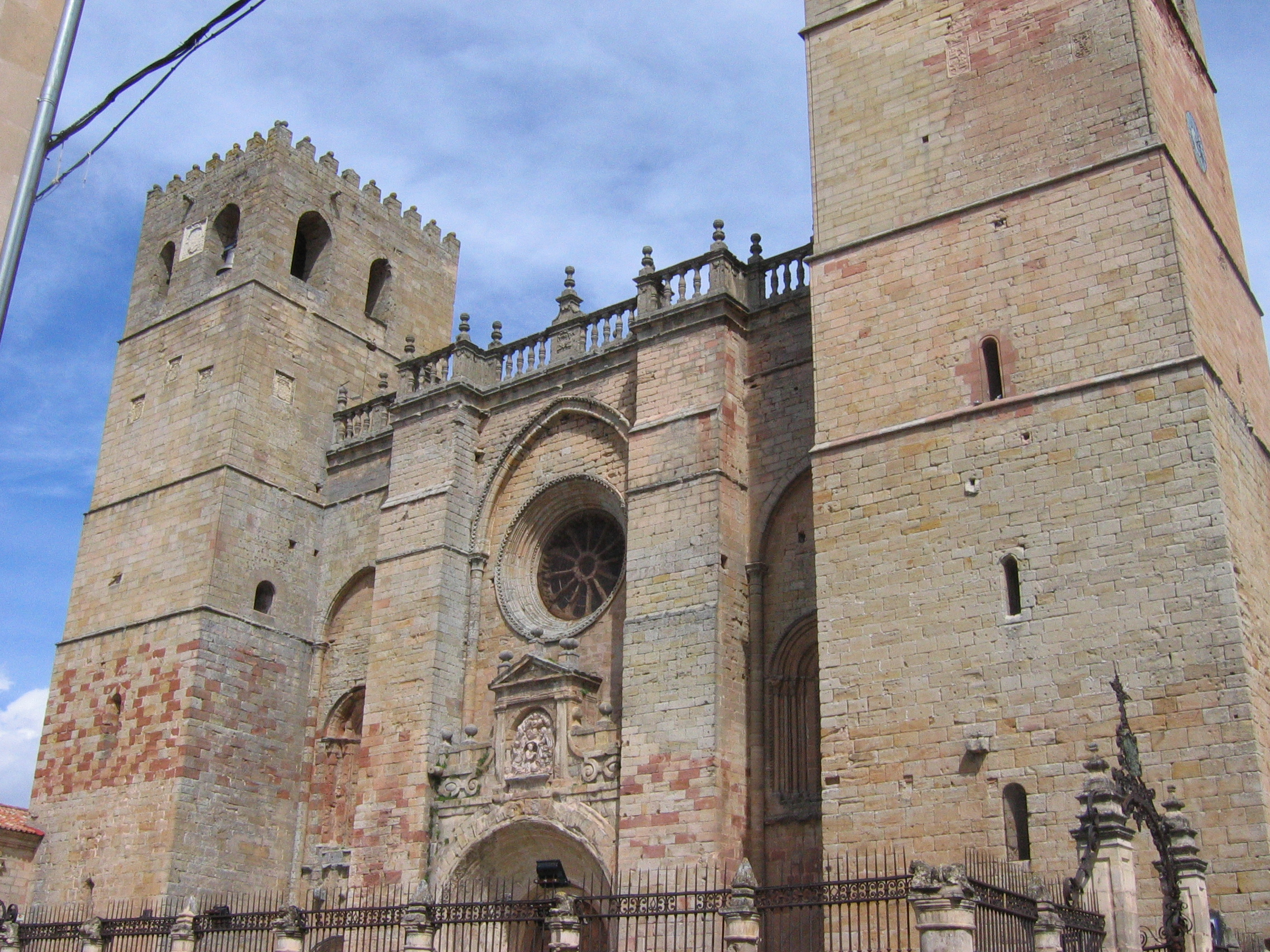 Cathedral's facade, Siguenza (Spain)